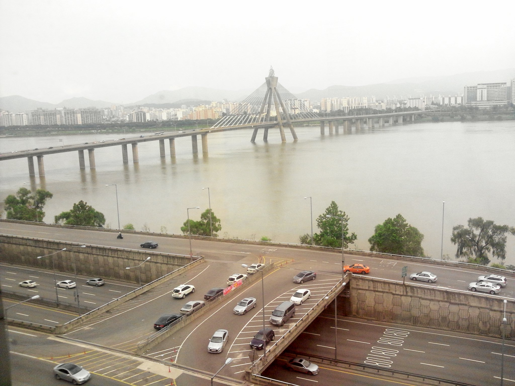 Olympic Bridge and Techno Overpass on Gangbyeonbukro(Gangbyeon Expressway)